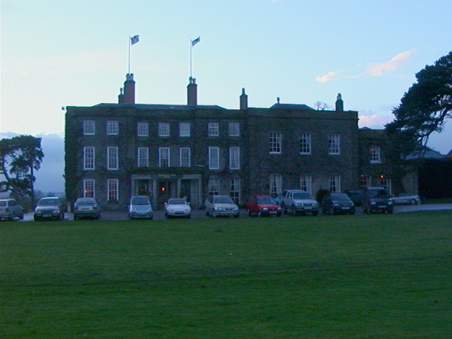 Wychnor Park Country Club, Barton under Needwood This image was taken from the Geograph project collection. See this photograph's page on the Geograph website for the photographer's contact details. The copyright on this image is owned by Andy Potter and is licensed for reuse under the Creative Commons Attribution-ShareAlike 2.0 license. Attribution: Andy Potter